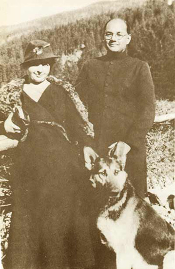 Subhas Chandra Bose with his wife Emilie Schenkl in Austria, 1937